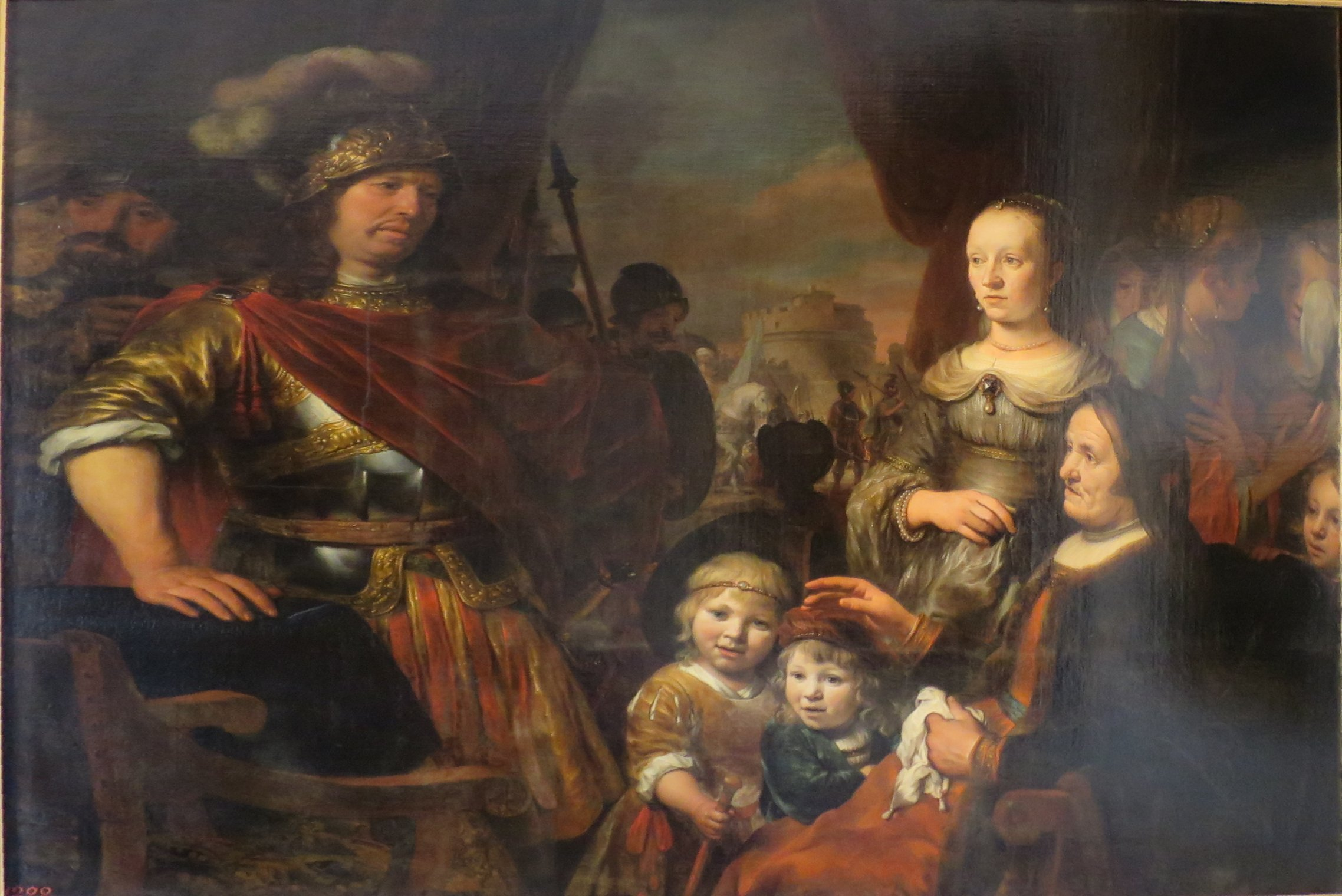 'Coriolanus's Wife and Mother Beg Him to Spare Rome' by Gerbrand van den Eeckhout, 1662, The Hermitage